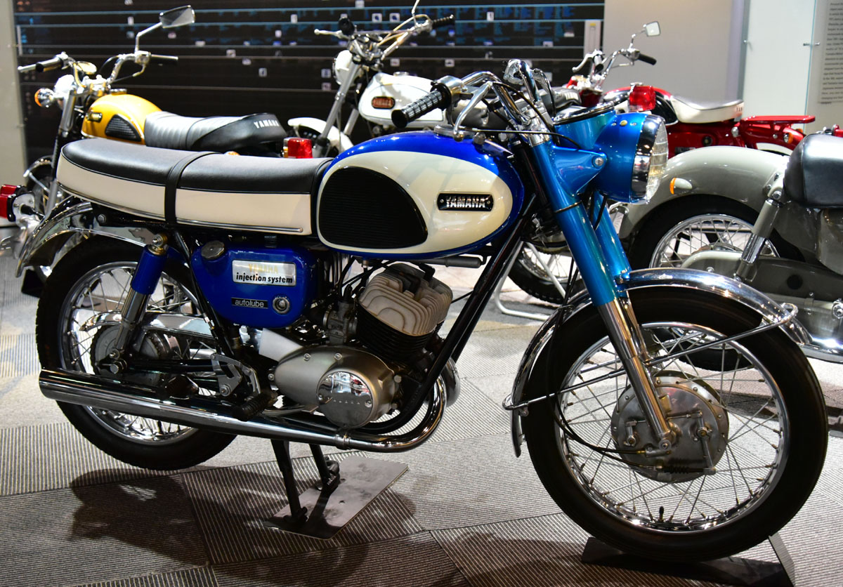 YAMAHA YM1 (1965)